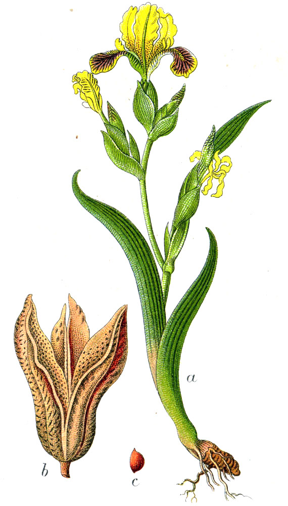 Iris variegata L. Original Caption Bunte Schwertlilie, Iris variegata